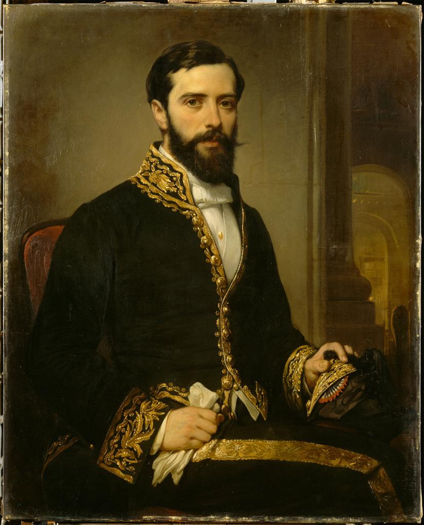 Portrait of Charles Theodule Deveria